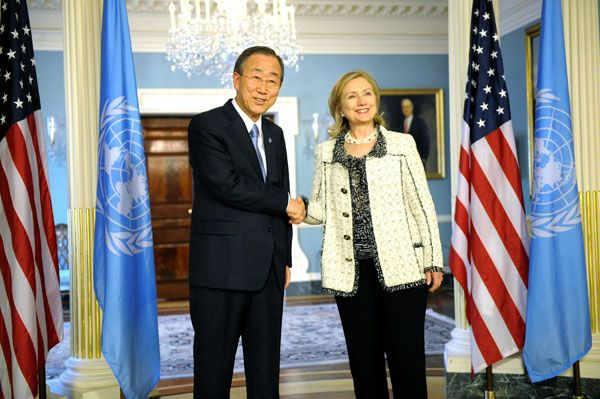 Secretary Clinton held a bilateral meeting with United Nations Secretary General Ban Ki-Moon at the Department of State. (April 7, 2011)